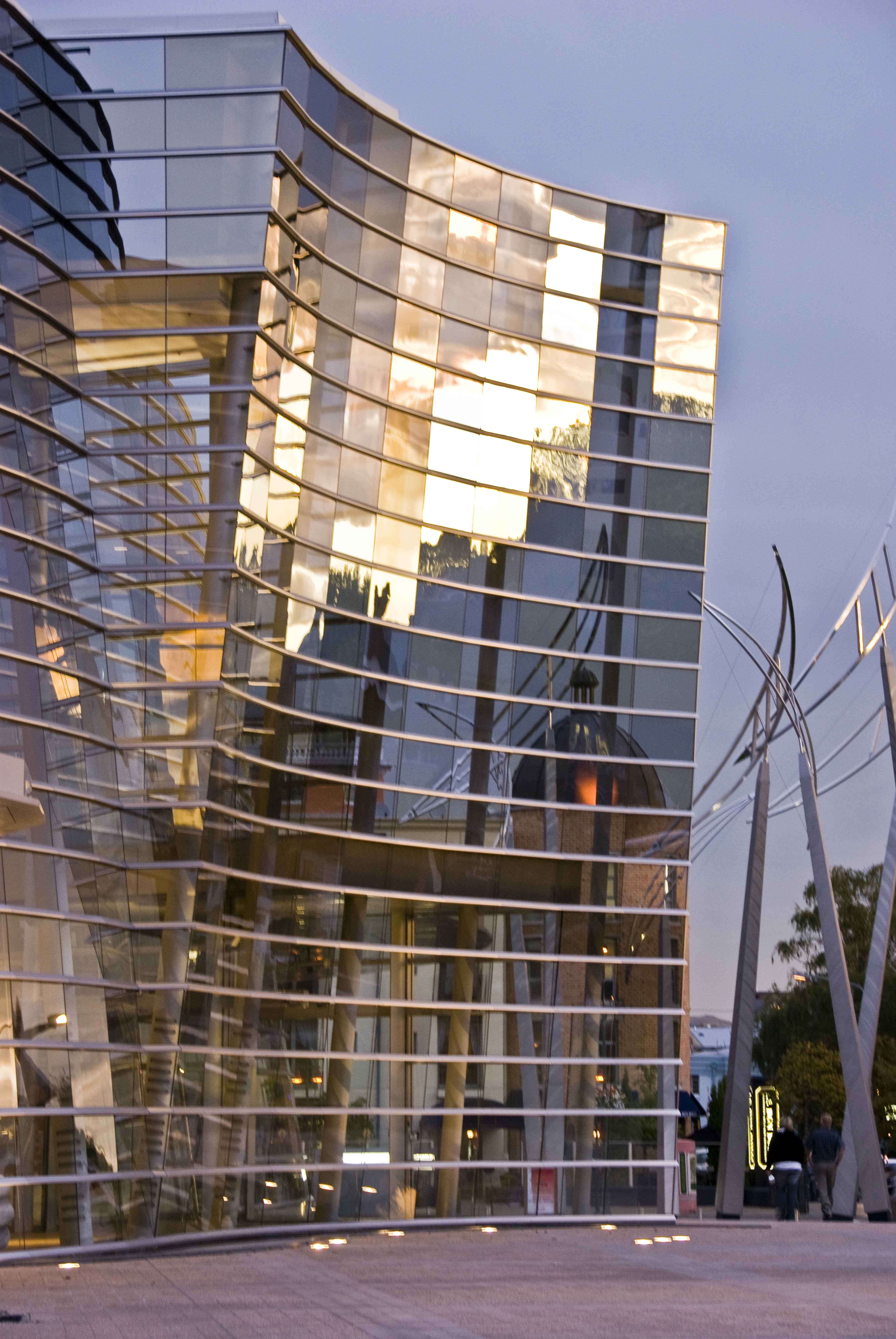 Christchurch Art Gallery Te Puna o Waiwhetu and sculpture Reasons for Voyaging by Graham Bennett